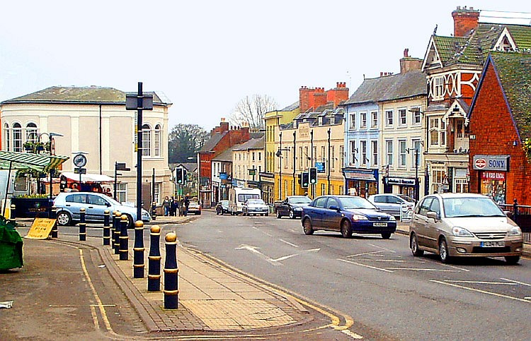 Market Street (the A426 road) in Lutterworth. At the left can be seen some stalls of the town market. Photo by G-Man Jan 2005